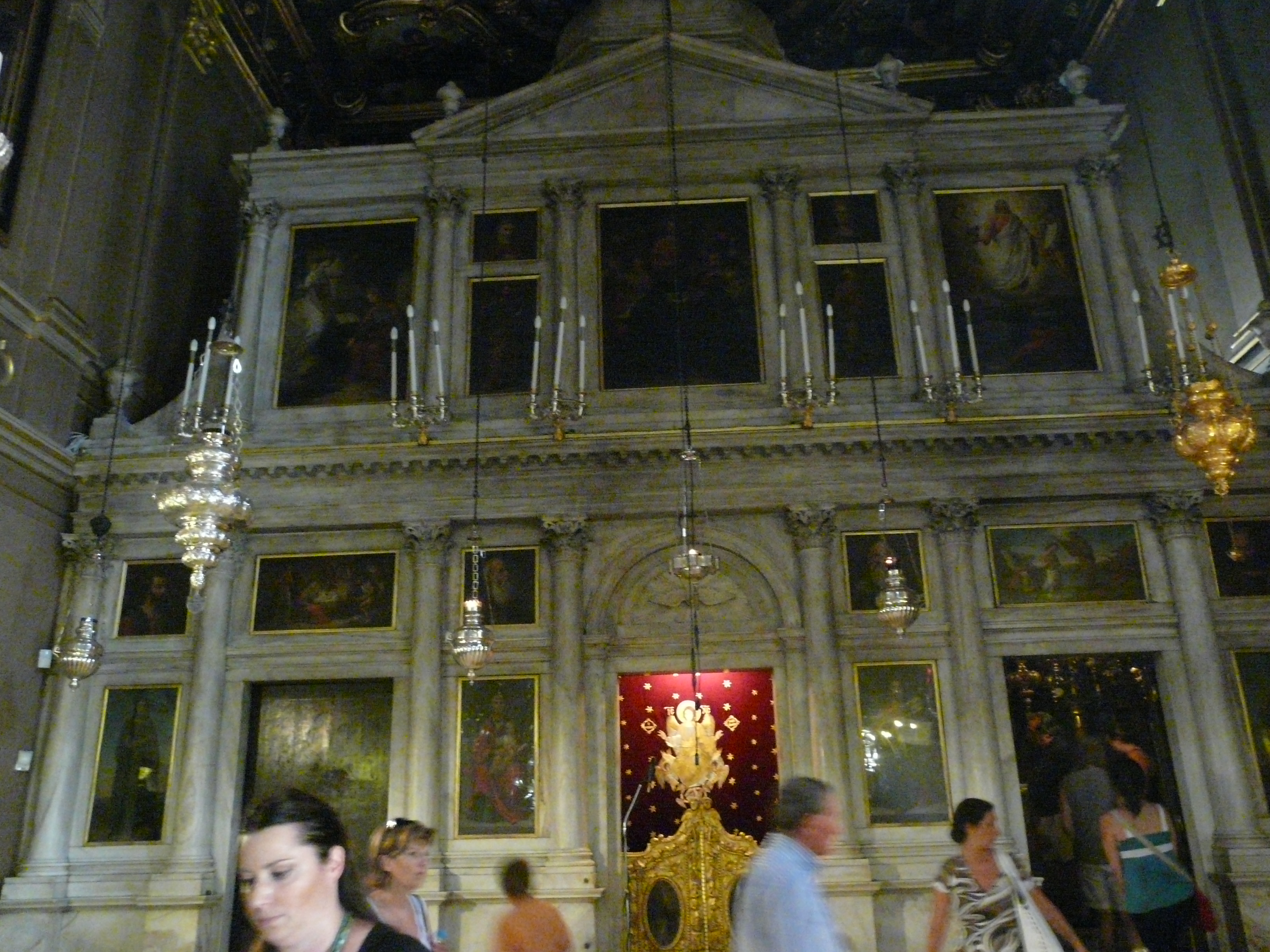 Corfu town.Corfu, Greece.